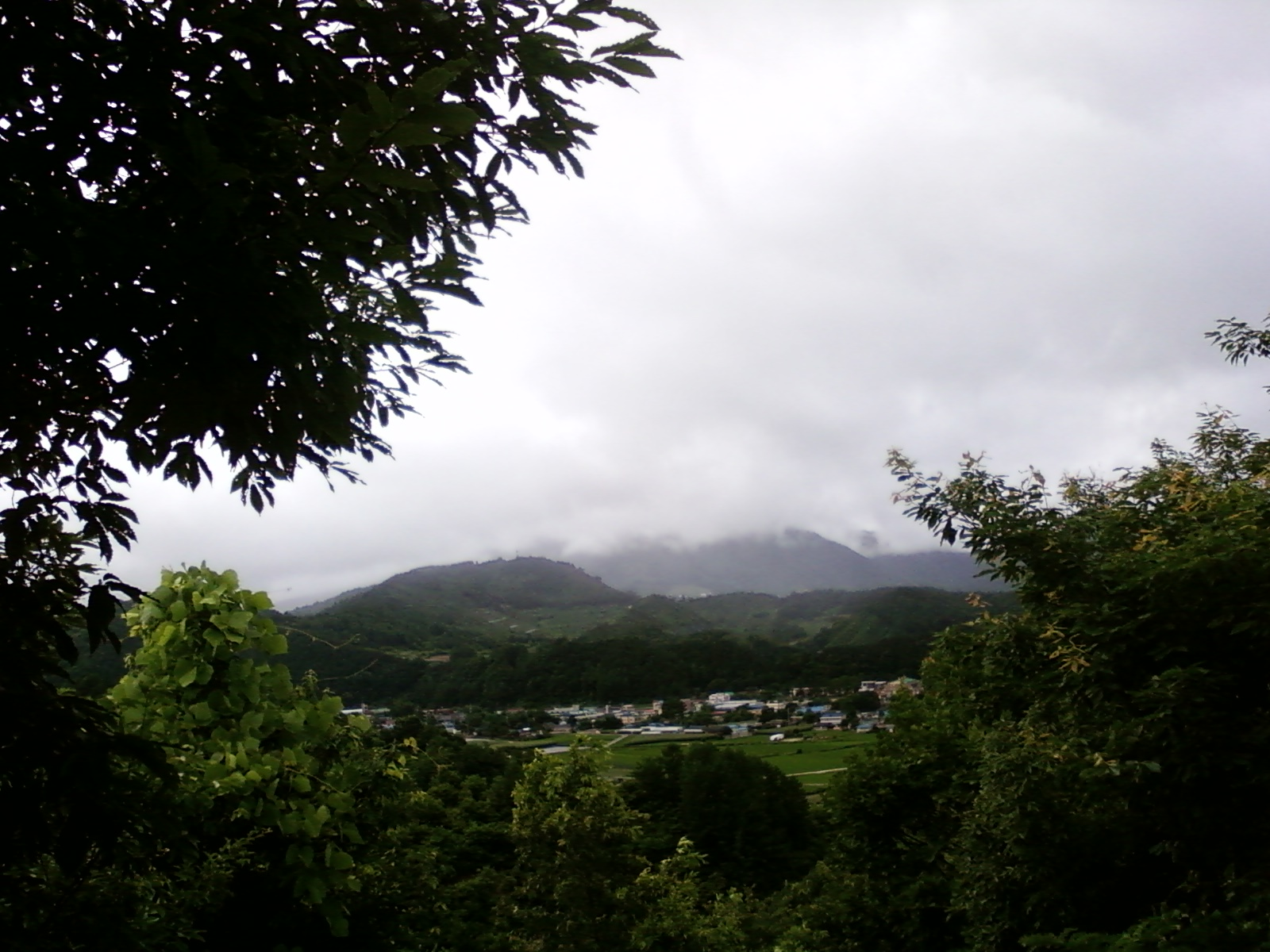 Mupung-myeon, Muju-gun, Jeollabuk-do, Korea(Republic of)